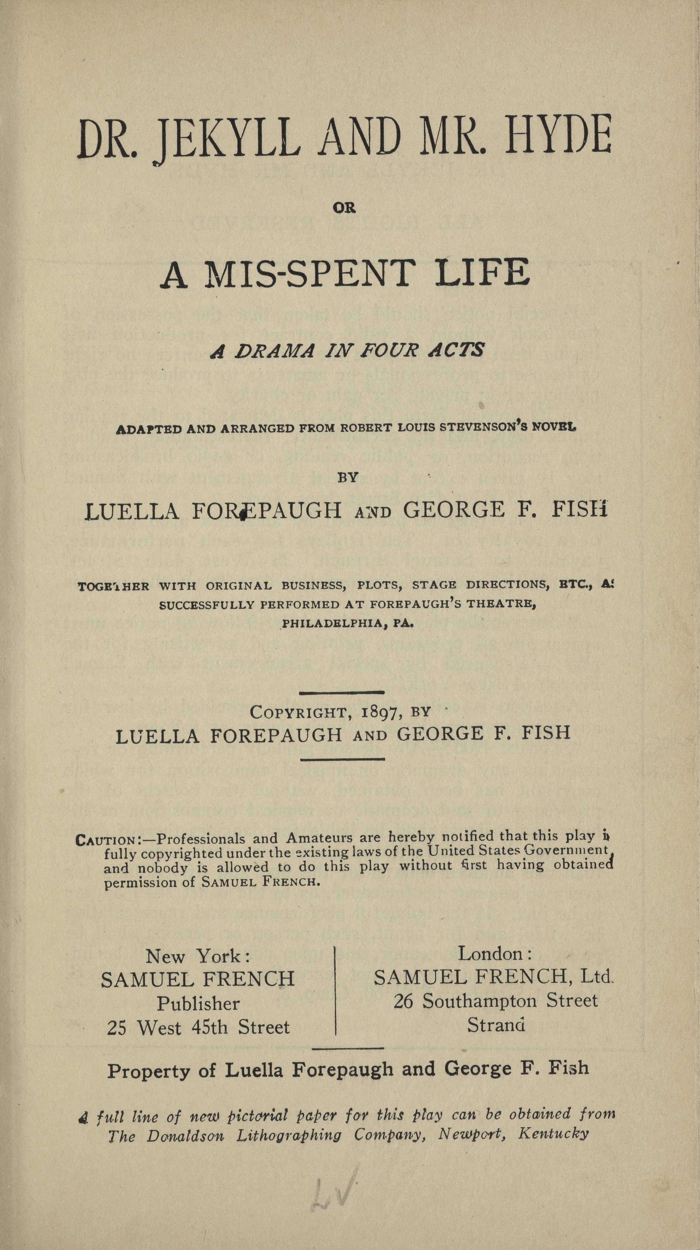 Title page for published version of Dr. Jekyll and Mr. Hyde, an 1897 stage adaptation by Luella Forepaugh and George F. FIsh, published in 1904 by Samuel French